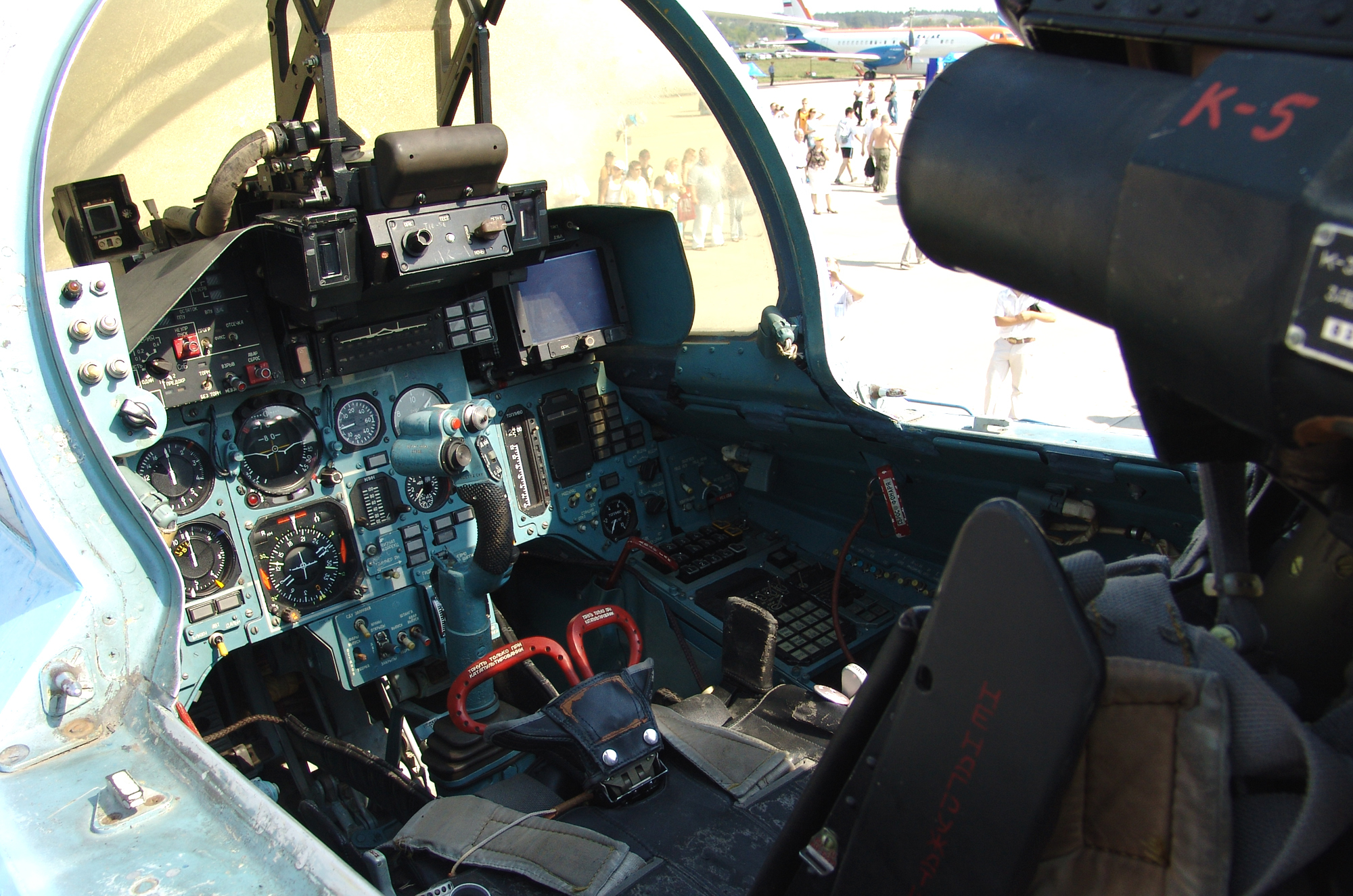 Cockpit of Sukhoi Su-33 carrier-based fighter